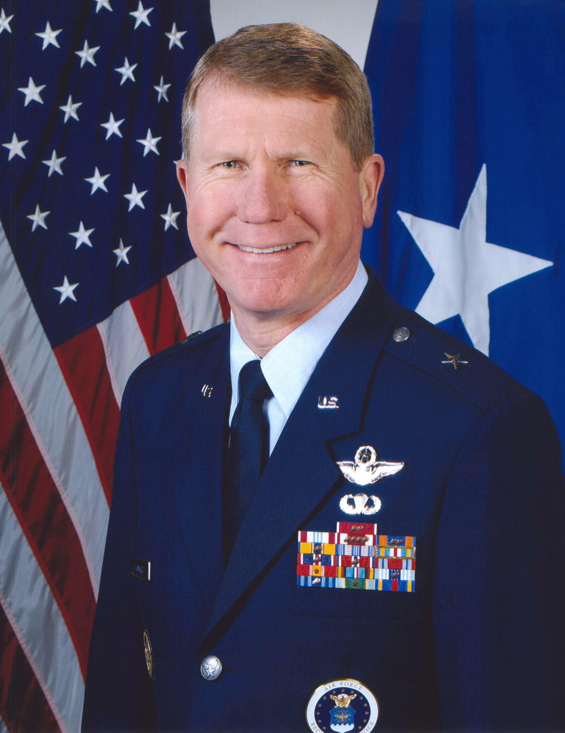 General Robertus Remkes USAF from [1]